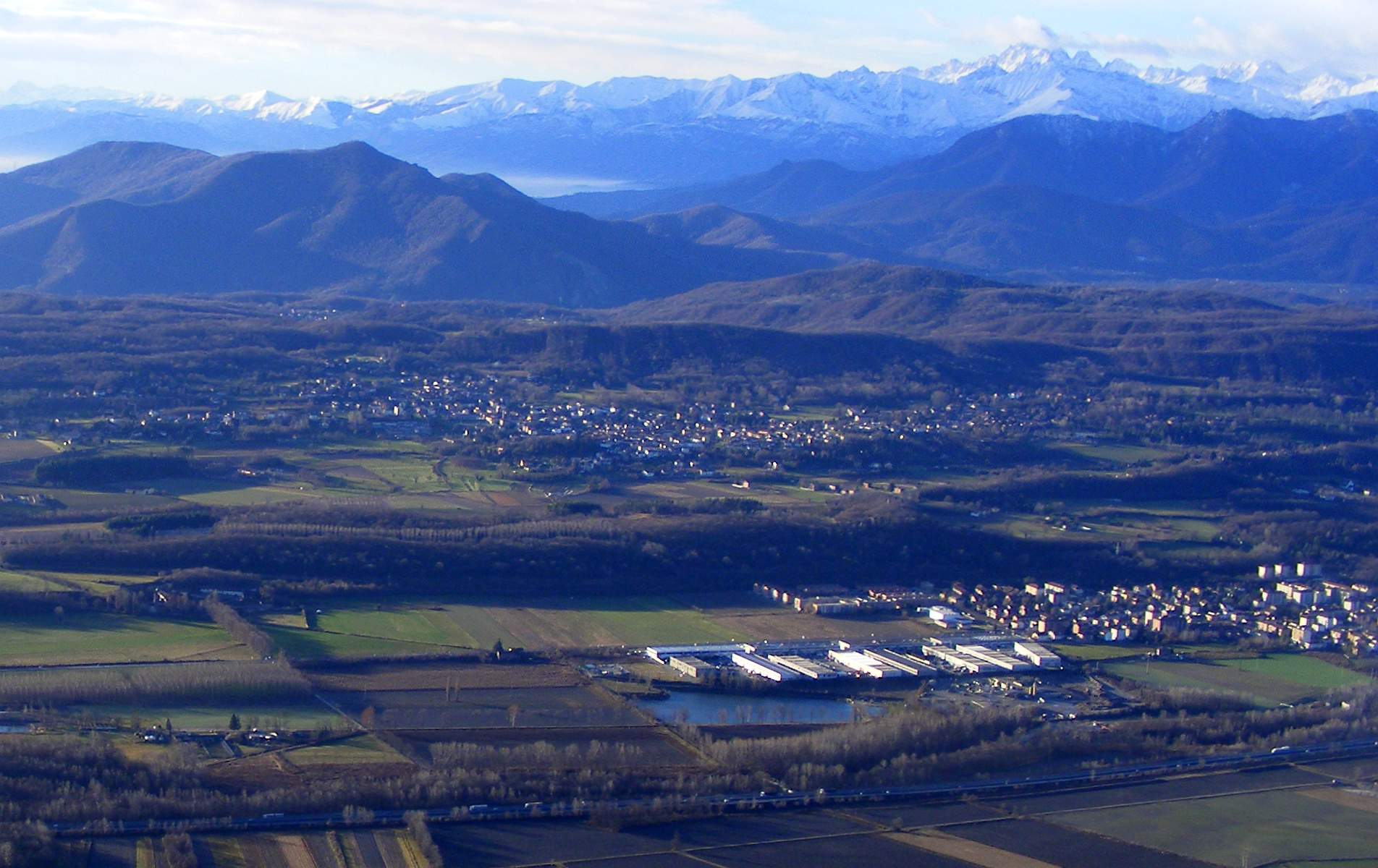 Buttigliera Alta (TO, Italy): panorama from Mount Musinè east ridge.